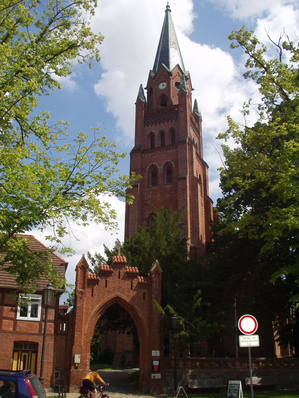 Röbel, Germany. Church